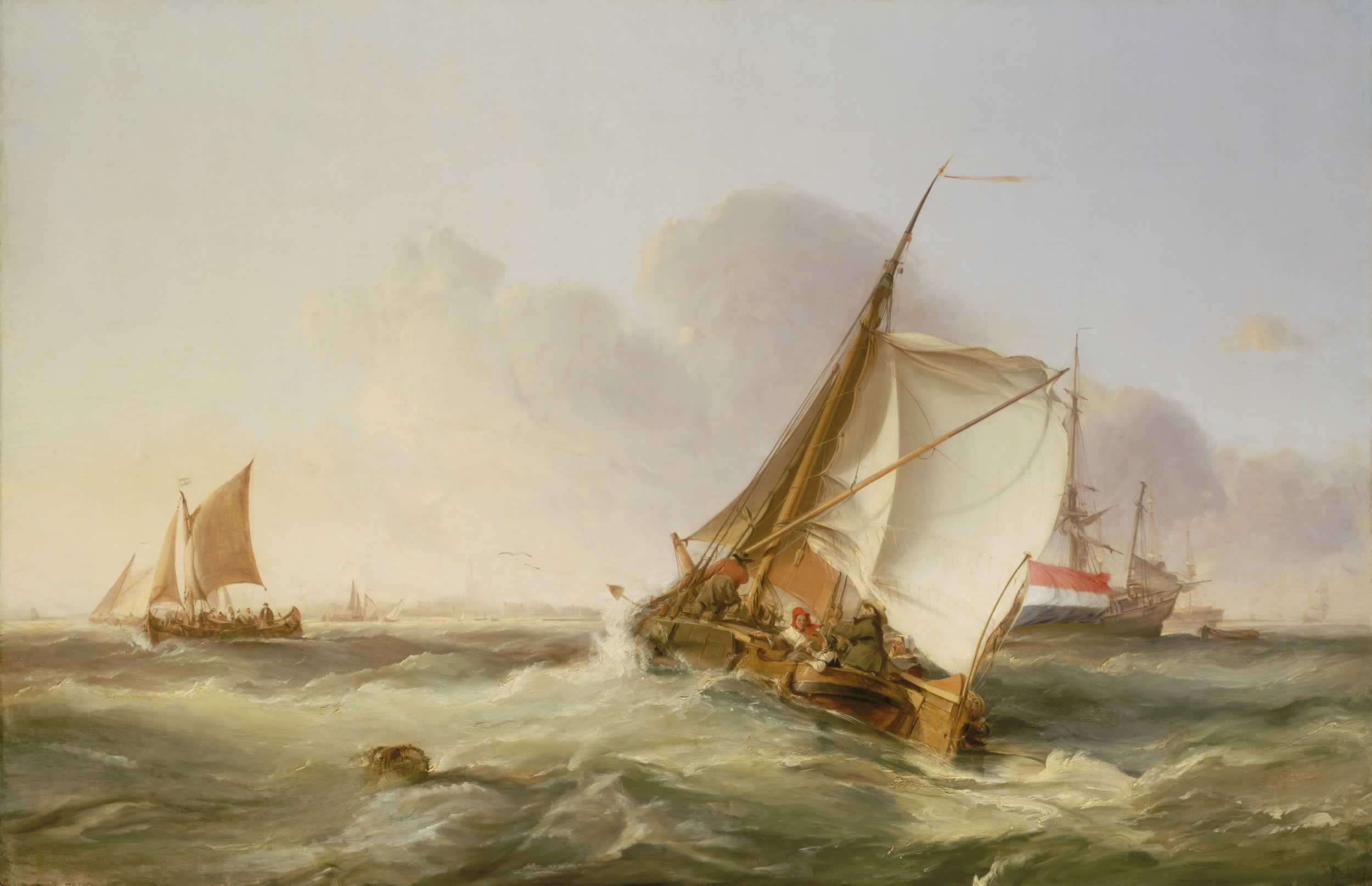 A boeier flying the Dutch flag is portrayed apparently setting her sprit in a fresh breeze, with a variety of shipping visible beyond to left and right. A boeier is a small Dutch sprit-rigged seagoing merchant vessel with a deep sail and with a curved spoon bow, and the painter has carefully detailed the rigging. There is a group of figures seated in the stern, including two women, one wearing a red scarf knotted over her head and one in a white cap. A child leans out towards the water where the waves splash against the side of the boat, whilst a man wearing a broad-brimmed hat and with his back to the viewer leans forwards towards the sails. By the mast another man stands, facing away from the viewer, and bringing the sprit in to the foot of the mast. In the background the skyline of a village, including the steeple of a church, is visible. Although Dutch craft have been portrayed, it may be an English port.